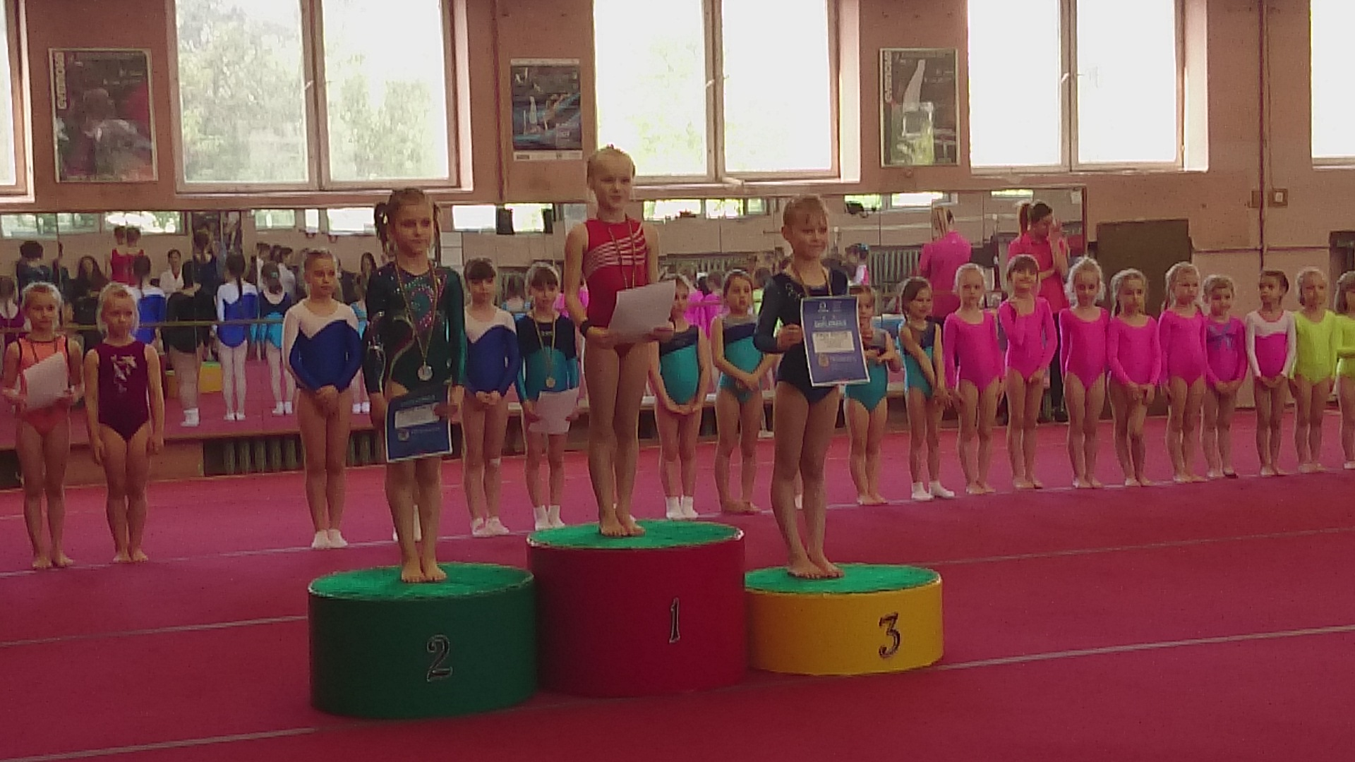 Vilnius gymnastic school